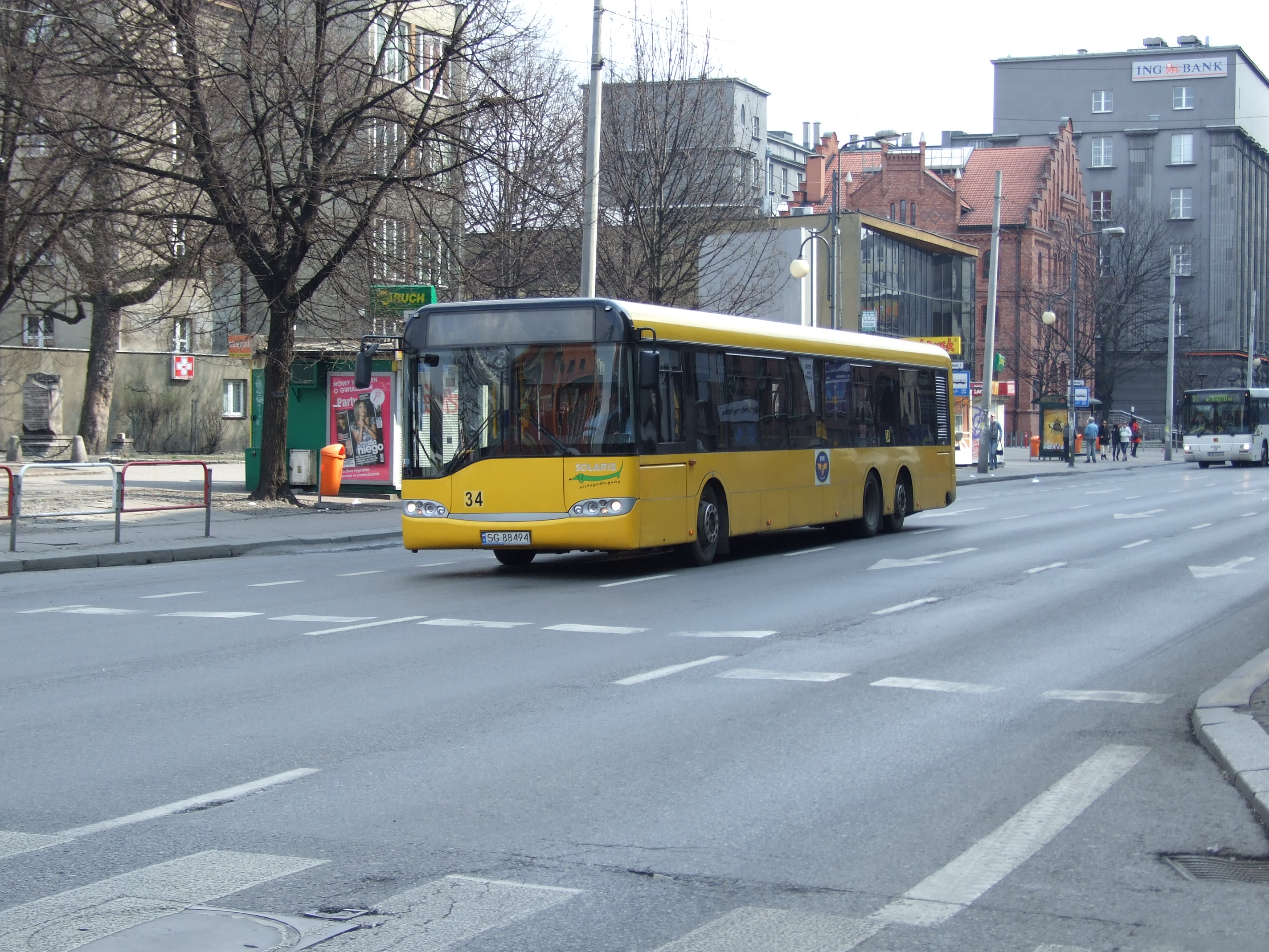 Public transport in Katowice, Poland. Solaris Urbino 15 Mk2 bus (#34) from PKM Gliwice, built 2005.